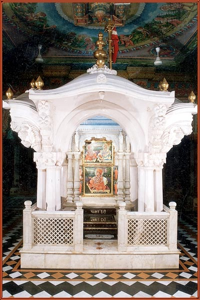 This is an image of Akshar Deri in Gondal, India.